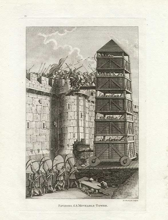 Copper plate engraving entitled Pavisors & A Moveable Tower Assaulting A Castle, original size 10½” by 8½” (27 cm by 21.5 cm)